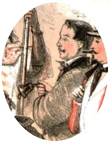 Conference-Secretary of Academy of Arts F. F. Lvov at costume ball, 1860. Fragment of a caricature drawing from "Russian Art Gazette" by G. W. Timm.